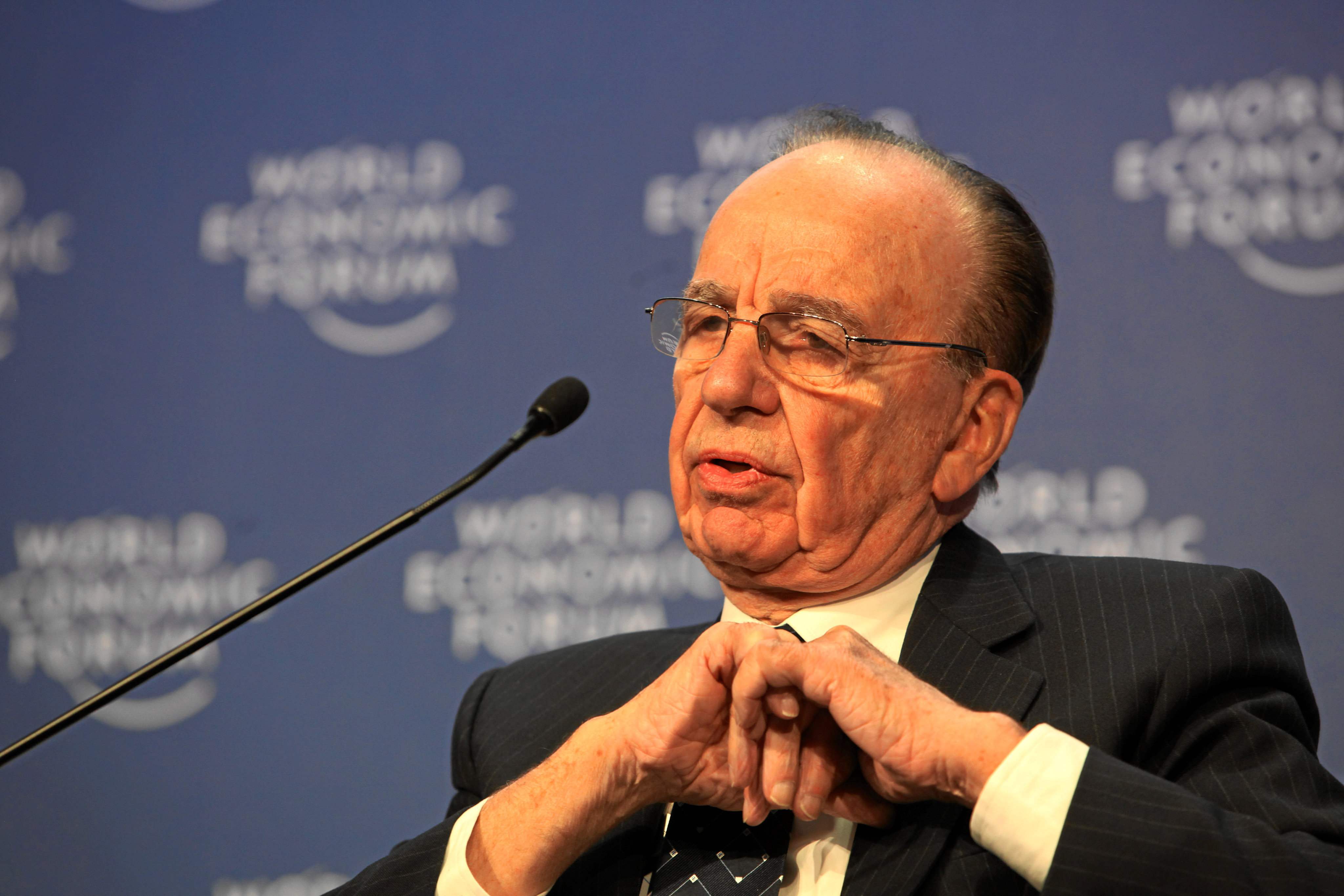 Rupert Murdoch, Chairman and Chief Executive Officer, News Corporation, USA; Co-Chair of the World Economic Forum Annual Meeting 2009 captured during the session 'Advice to the US President on Competitiveness' at the Annual Meeting 2009 of the World Economic Forum in Davos, Switzerland, January 30, 2009.